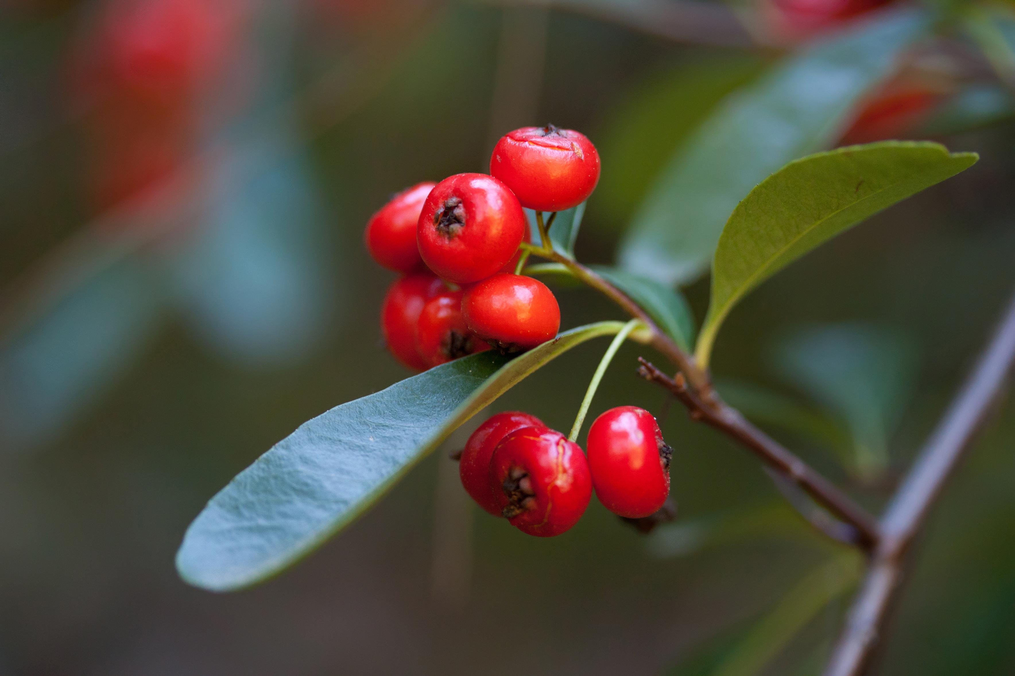 Berries and leaves of Ilex mitis. Western Cape, South Africa.